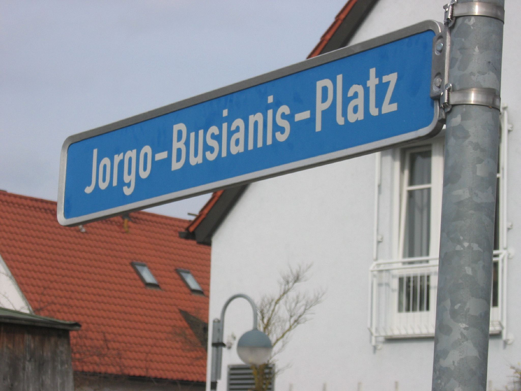 road sign for the artist Jorgo Busianis in Eichenau